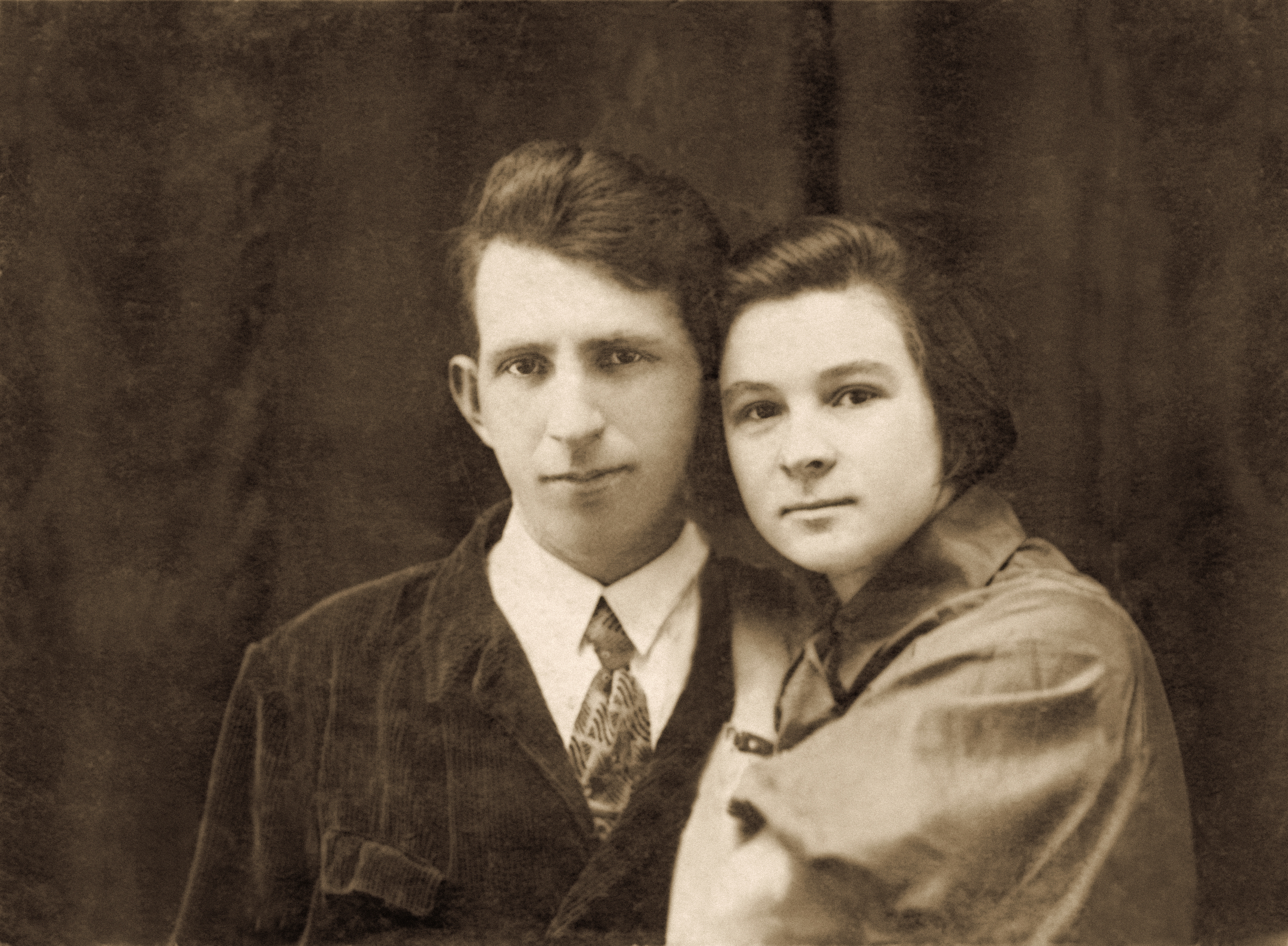 Oleg Iakupson